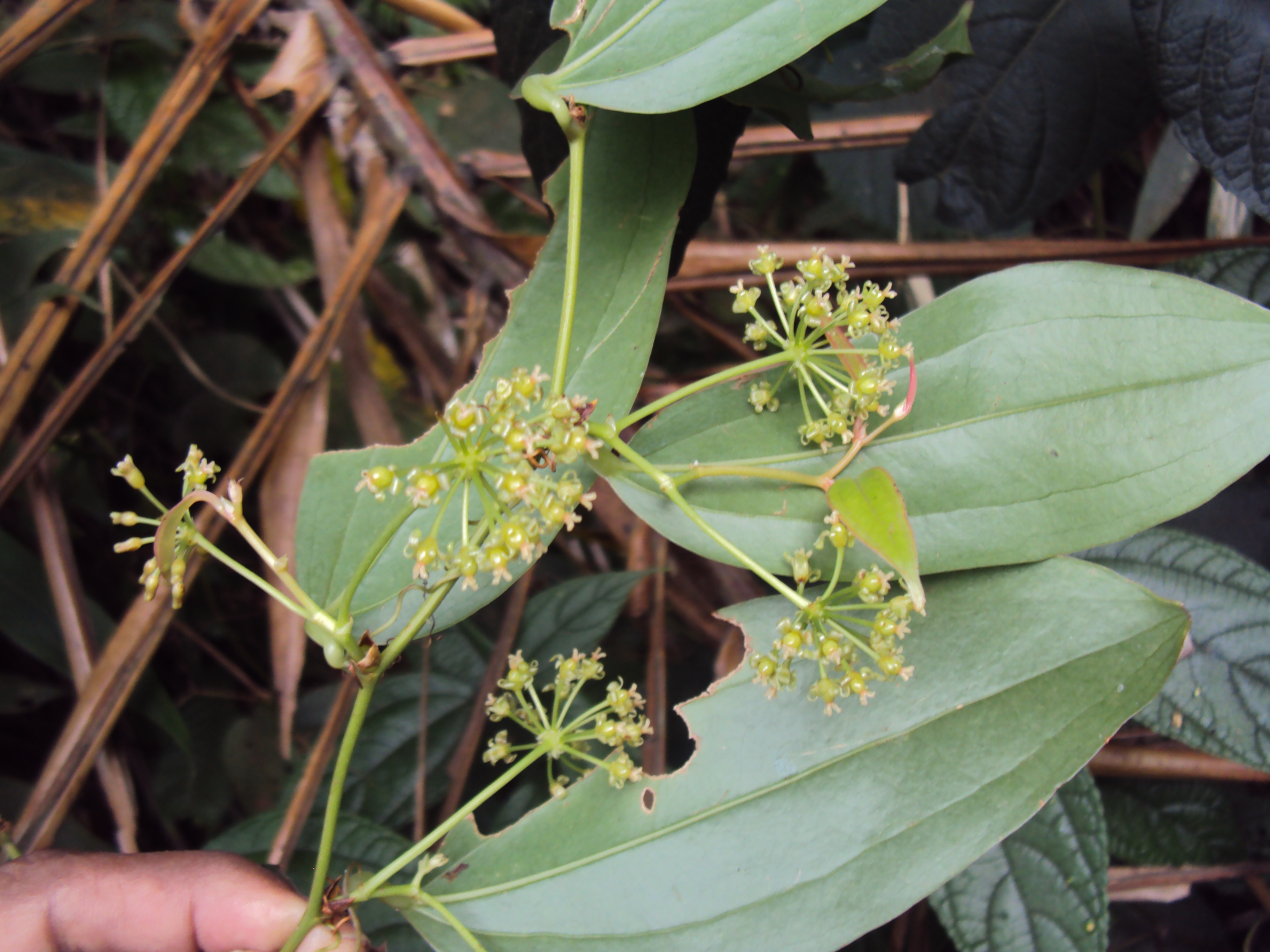 Smilax zeylanica